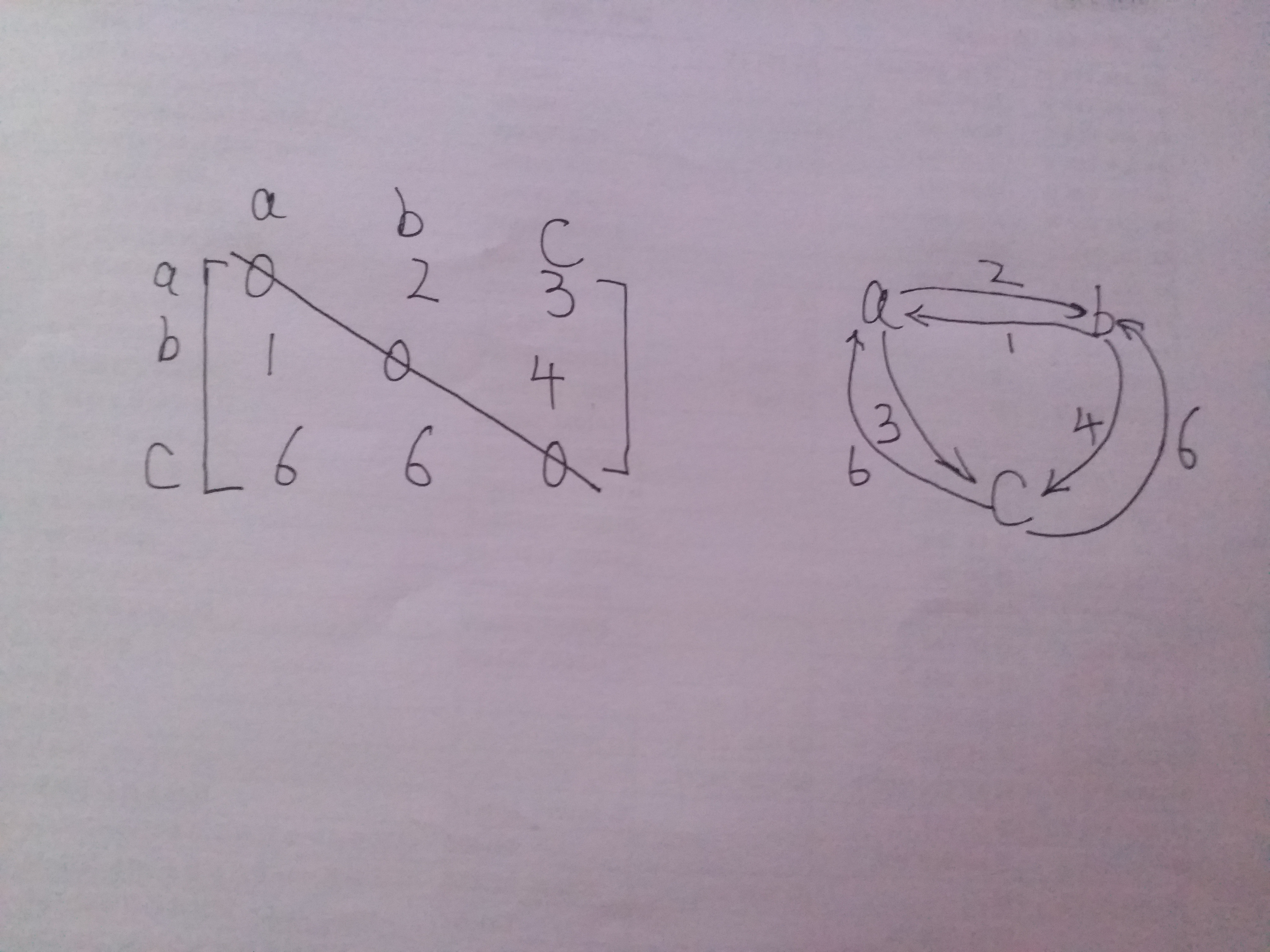 This is a typical adj matrix